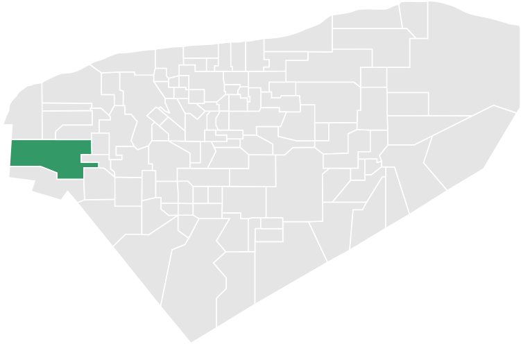 Map of the Municipalty of Maxcanú in the State of Yucatán, México.